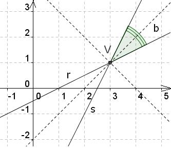 The bisector of an angle